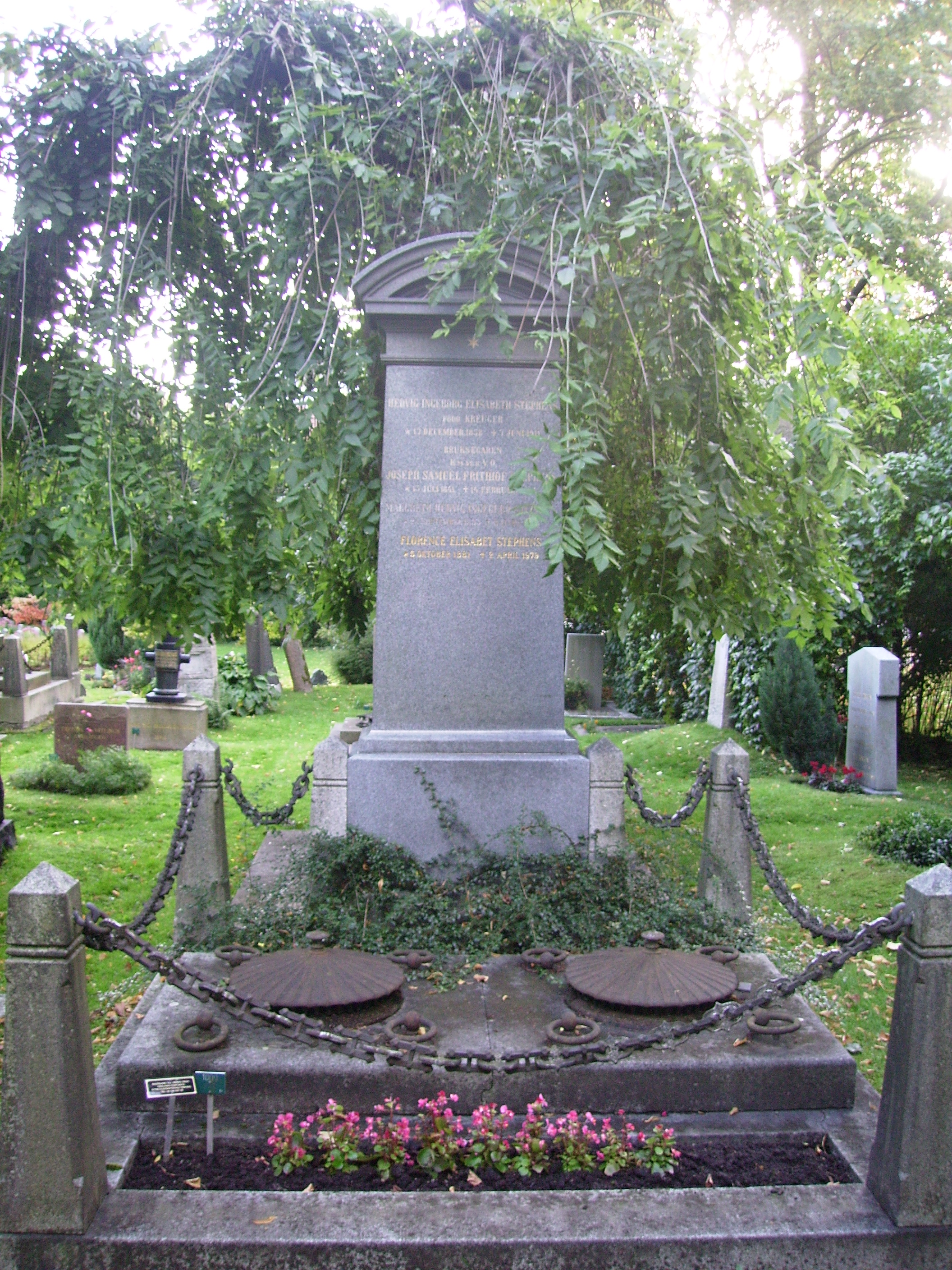 Picture of Florence Stephens grave at Solna kyrkogård